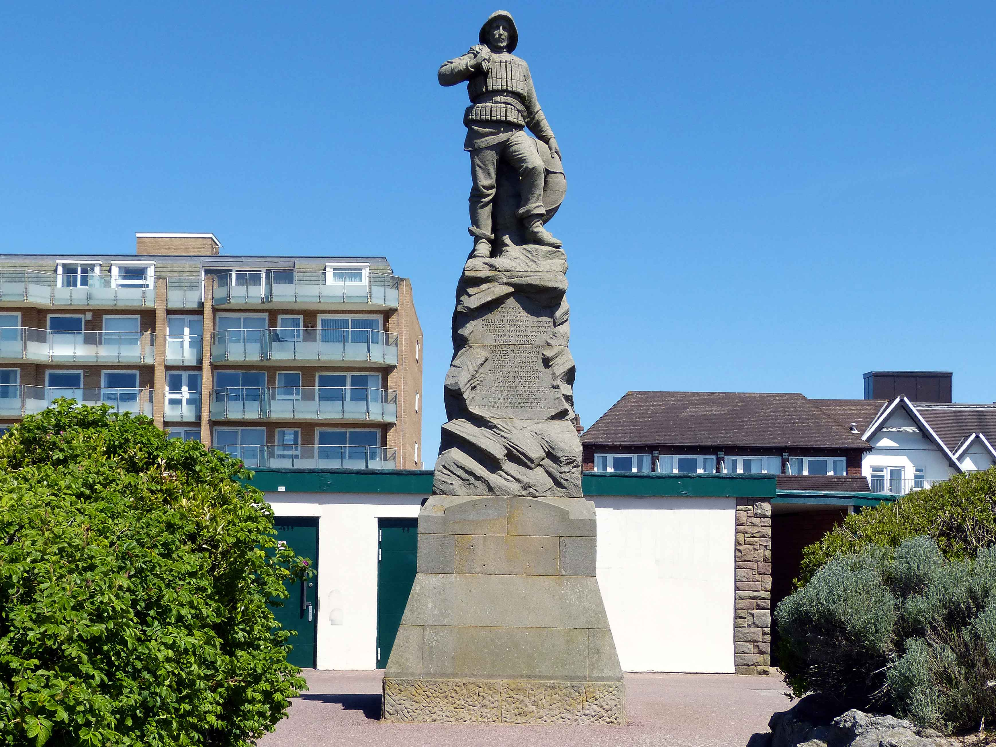 memorial commorating the St Annes Lifeboat disaster on 9 December 1886